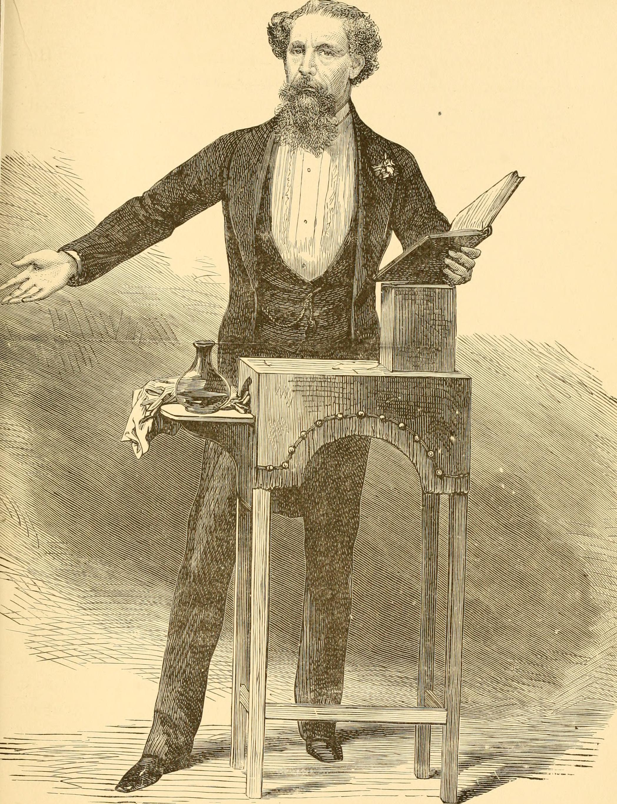 Title: The English Bodley family Year: 1900 (1900s) Authors: Scudder, Horace Elisha, 1838-1902. (from old catalog) Subjects: Publisher: Boston, New York, Houghton, Mifflin and company Text Appearing Before Image: ' Text Appearing After Image: CHARLES DICKENS READING A STORY. LONDON TOWN. 173 all we have, only give us peace. The Duke of Richmond replied,and Chatham rose again to make another speech, but suddenly hegasped, laid his hand upon his heart, and sank back dying. Did he die there ? No, he was carried to a house in Downing Street, where I thinkhe died, but I am not sure. They left the Houses of Parliament, and had yet time for a visitto Westminster Abbey. They entered by the little porch which ad-mits at once to the Poets Corner. They had been before in theAbbey on Sunday at service, and their visit now was especially tothis little sanctuary. Why should the poets be put in a corner ? asked Charles, witha show of indignation. And why should they be by the backdoor of the church ? de-manded Sarah. Isnt it better so? asked Mr. Bodley. This is the greatEnglish house of fame. Here lie kings, statesmen, warriors, painters,and poets, and here every day are prayer and praise. In the worldat large poets live very much at one